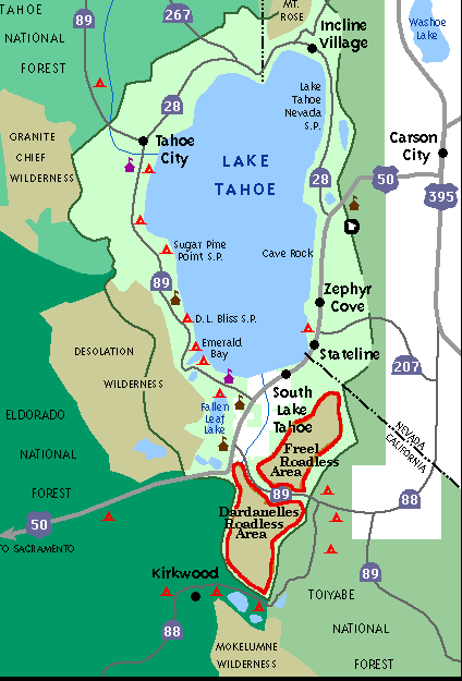 US Forest Service map of roadless areas south of Lake Tahoe, CA USA